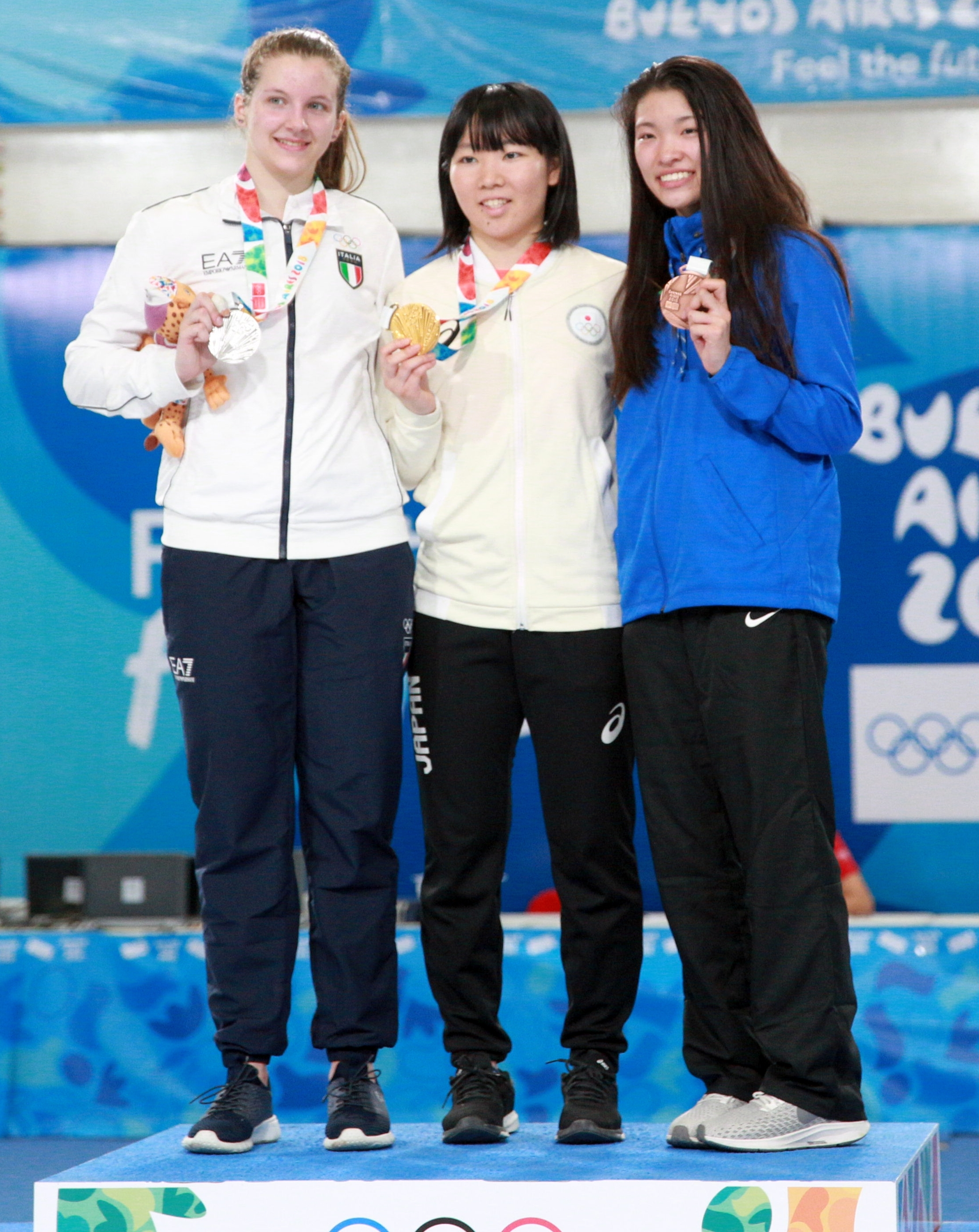 Fencing at the 2018 Summer Youth Olympics at 7 October 2018 – Girls' foil medail ceremony – Gold: Yuka Ueno (JPN), Silver: Martina Favaretto (ITA), Bronze: May Tieu (USA); Medal presenter: IOC member Britta Heidemann, Mascot presenter: FIE Vice president Donald Anthony Jr.